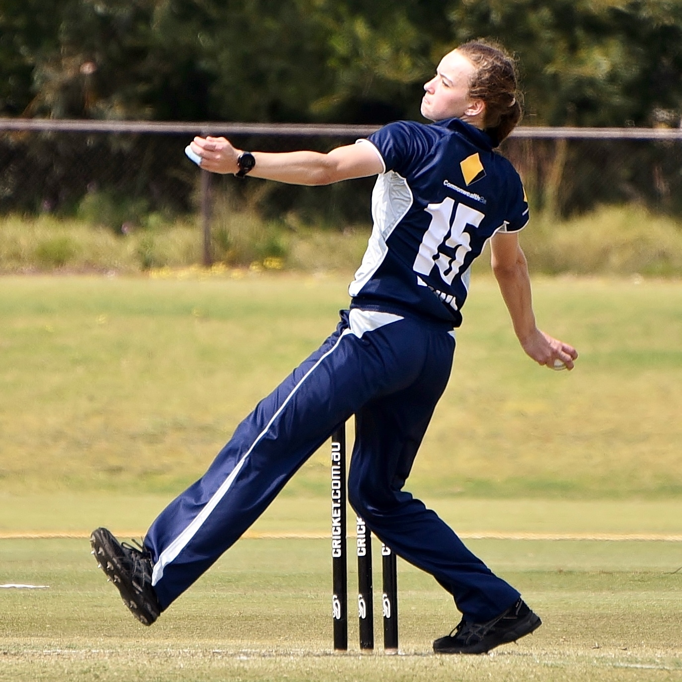 Makinley Blows bowling for the Victoria Women cricket team during a WNCL clash against the South Australian Scorpions at Murdoch University Sports Oval in Perth